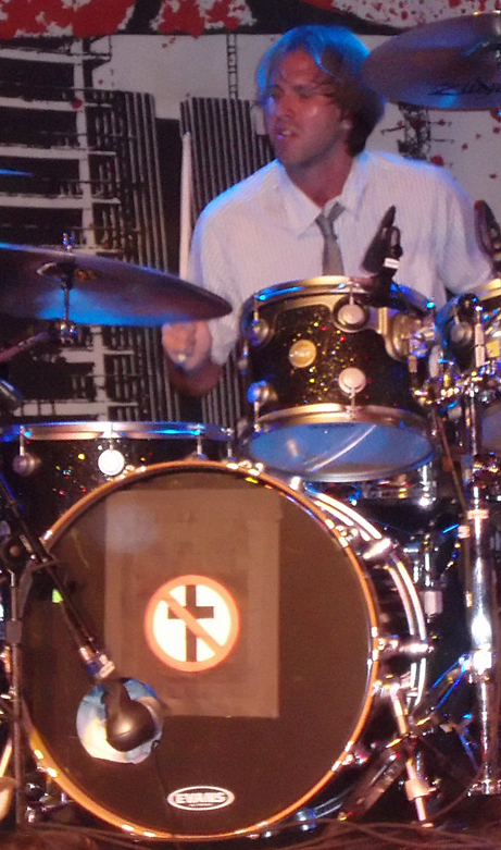 Photo taken by myself (Richard Acosta) during Bad Religion's concert at the Starland Ballroom in New Jersey.